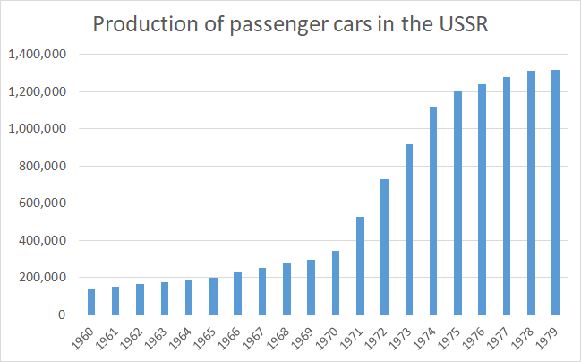 Production of passenger cars in the USSR, 1960-1979. Data source: Geography of the Soviet Union, page 223